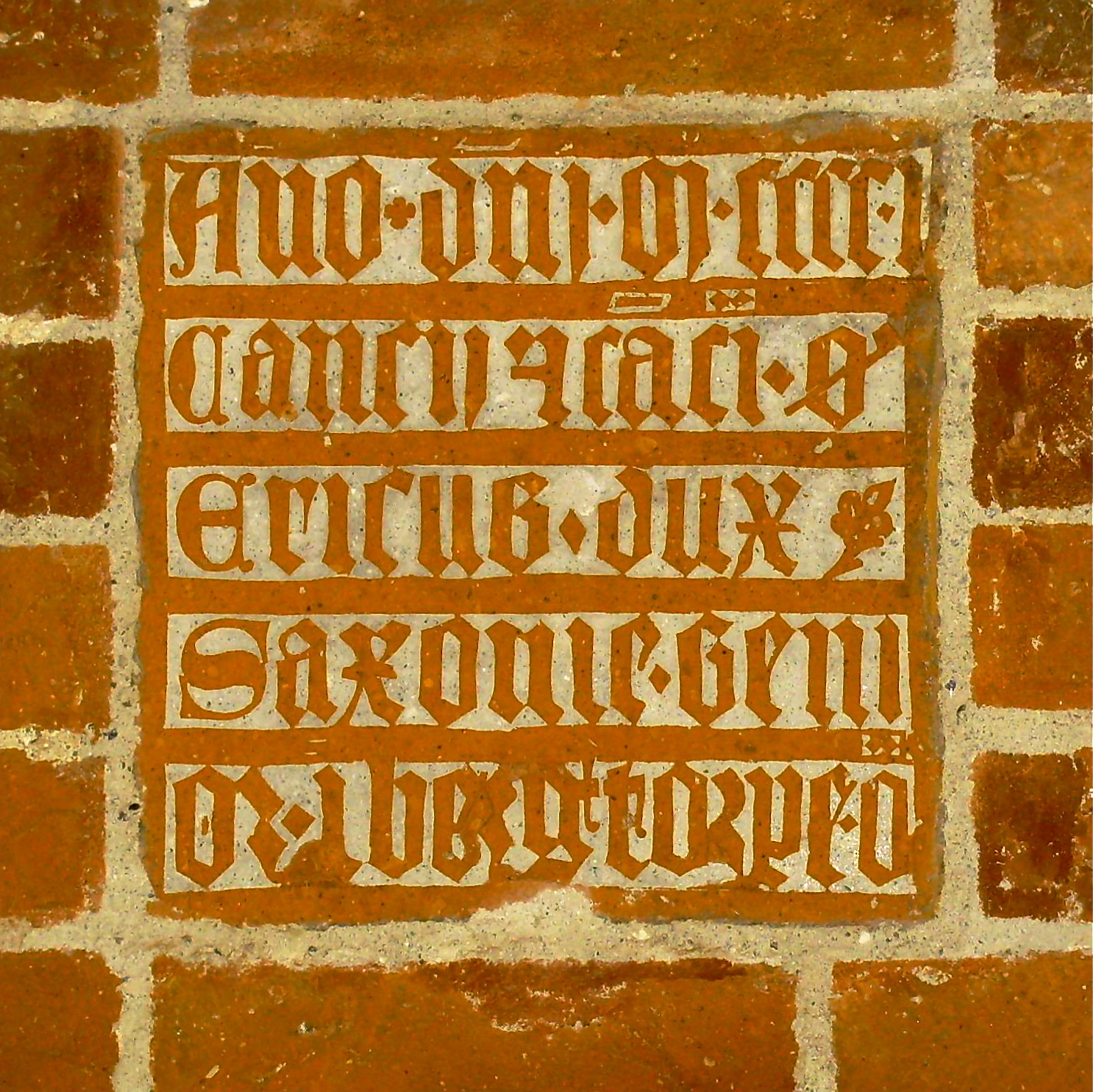 Plaquette in the dome of Ratzeburg to remember Eric III, Duke of Saxe-Lauenburg, who was burried at this site in 1401.